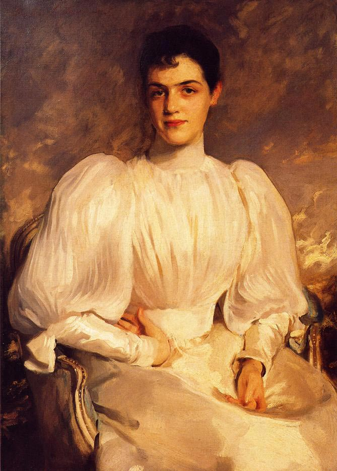 Miss Elsie Wagg John Singer Sargent -- American painter c. 1893 Private collection Oil on canvas 100.4 x 69.8 cm (39.53 x 27.48 in.) Jpg: .the-athenaeum